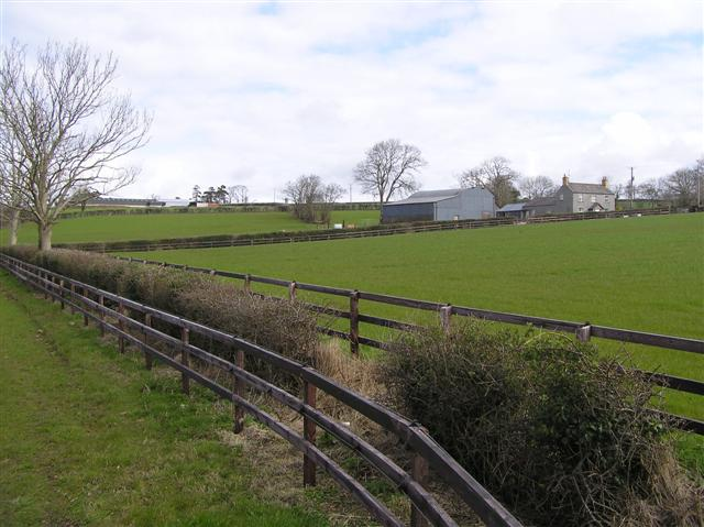 Aghanliss Townland Looking north-east from Lough Road